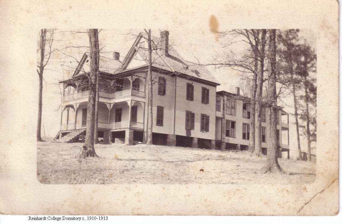 Reinhardt College 1896 John W. Heidt Hall historic photo. This image is to depict what Reinhardt's first dormitory (1896-1939) looked like in the 19th/early 20th century; this campus has lost all its historical structures and historical images of them are extremely rare. This photo was taken between 1910-1913 as evidenced by the copyright located in the lower corner that exist on the original image.